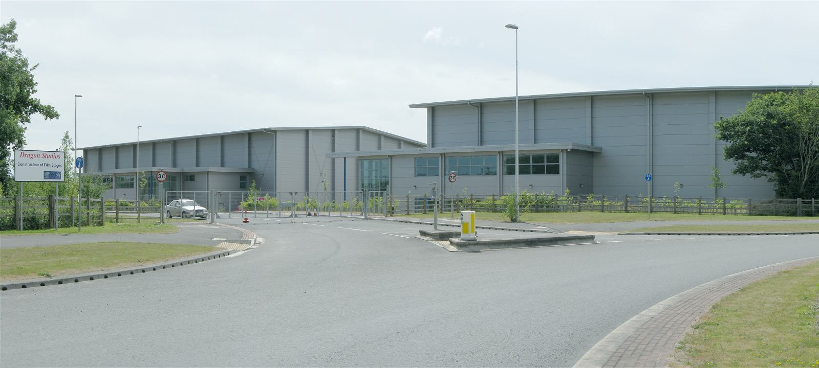 Gate of Dragon Studios, Llanilid